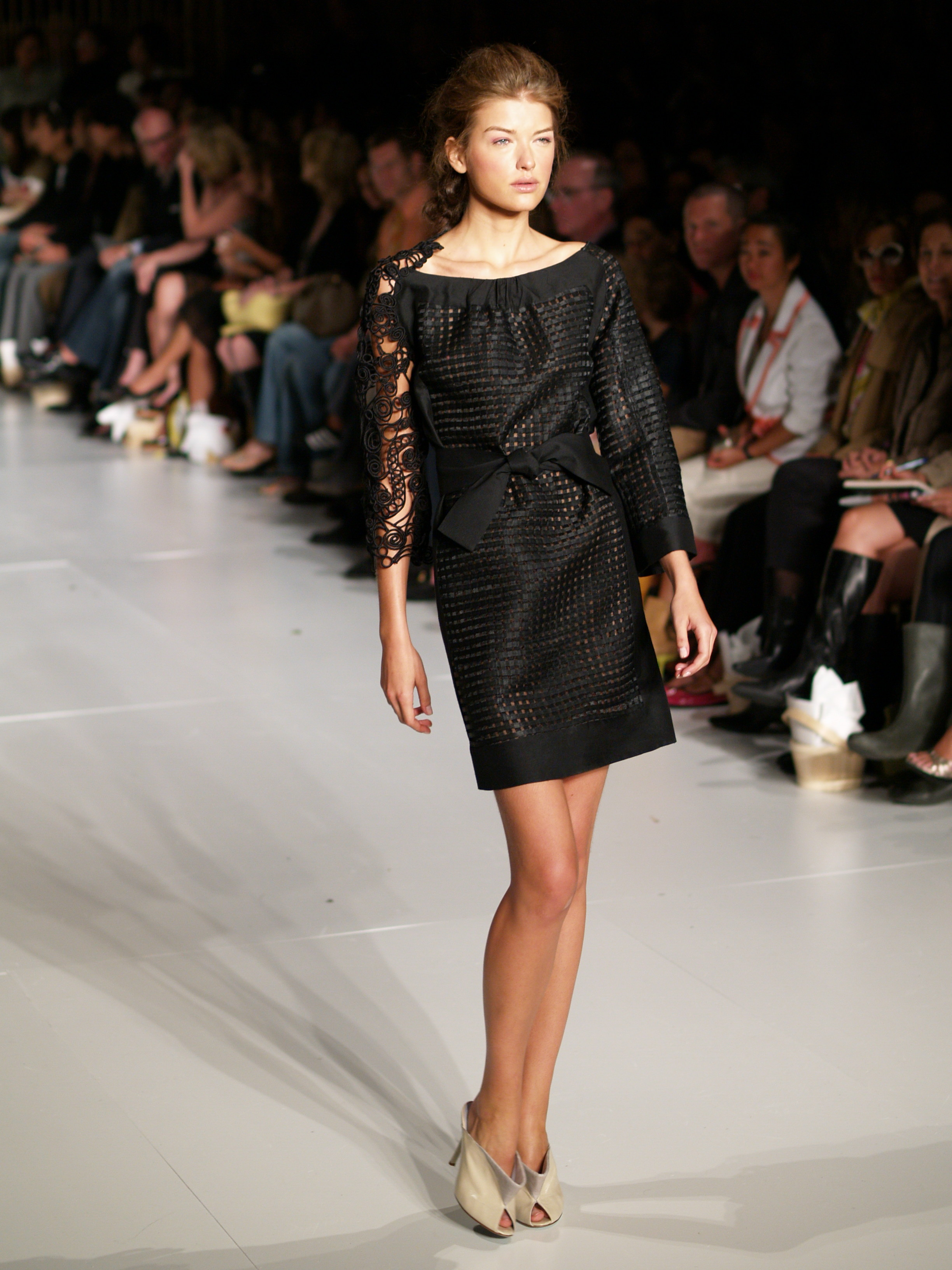 Nataliya Gotsiy modeling in Cynthia Rowley spring 2007 show, New York Fashion Week.